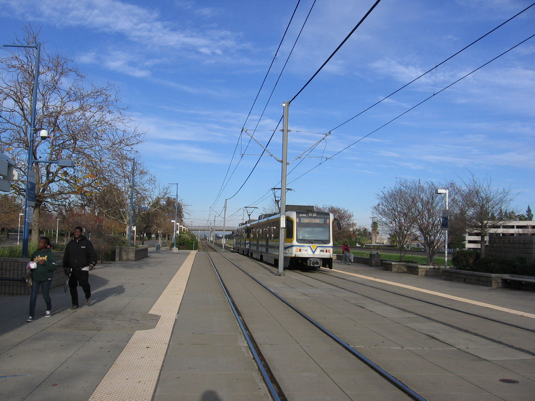 A Watt/I-80 (out) bound tram leaves the Swanston (Sacramento RT) light rail station in Sacramento, California, USA; having discharged passengers.